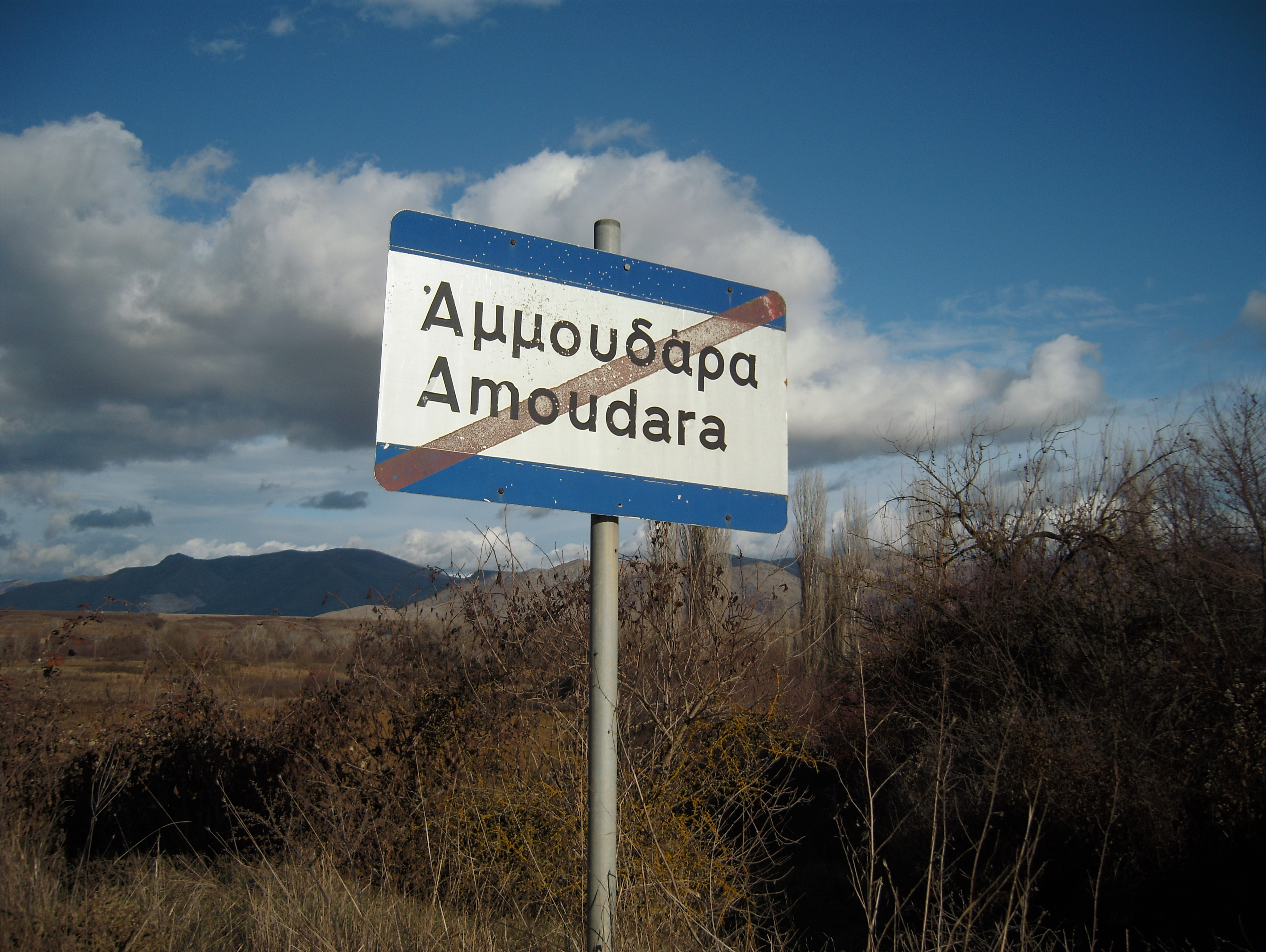 Pesyak / Amudara